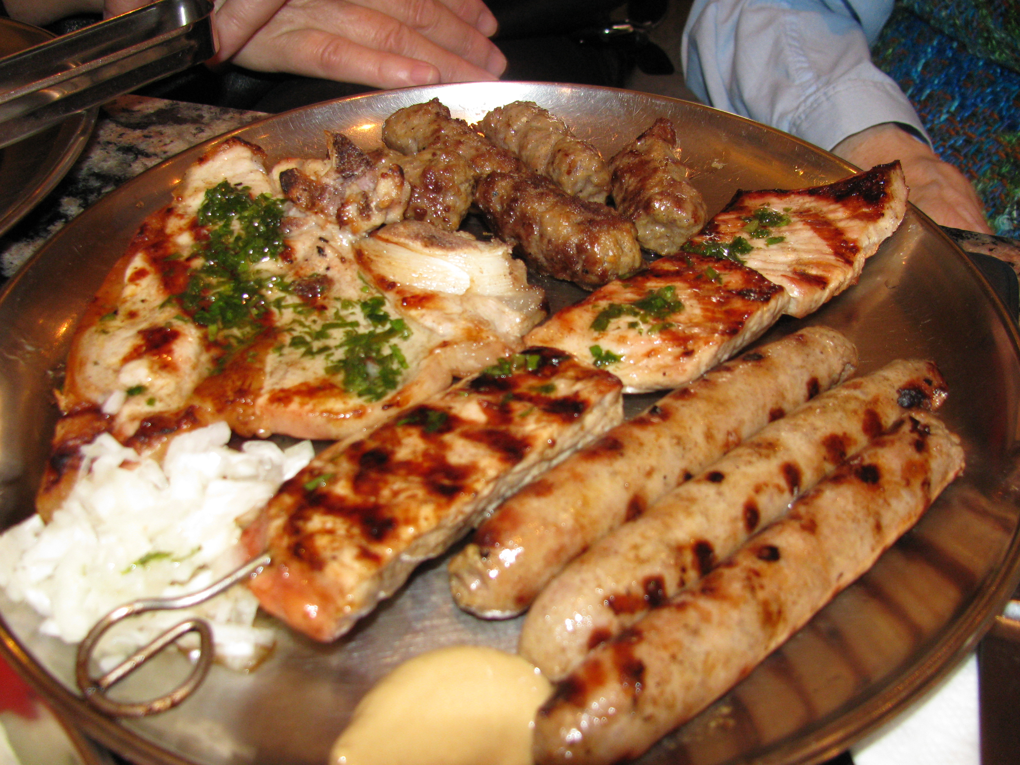 Bosnian meat platter from Sarajevo